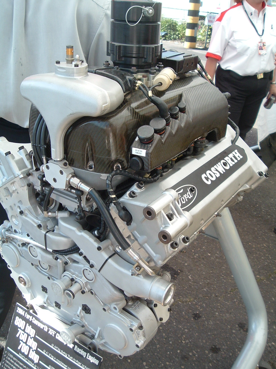 Summary A model 2004 Champ Car World Series V-8 engine. The engines are manufactured by Ford/Cosworth, and are capable of generating over 800 horsepower from just 161 cu./in. Taken at Portland International Raceway, June 18, 2006 at a Champ Car event.